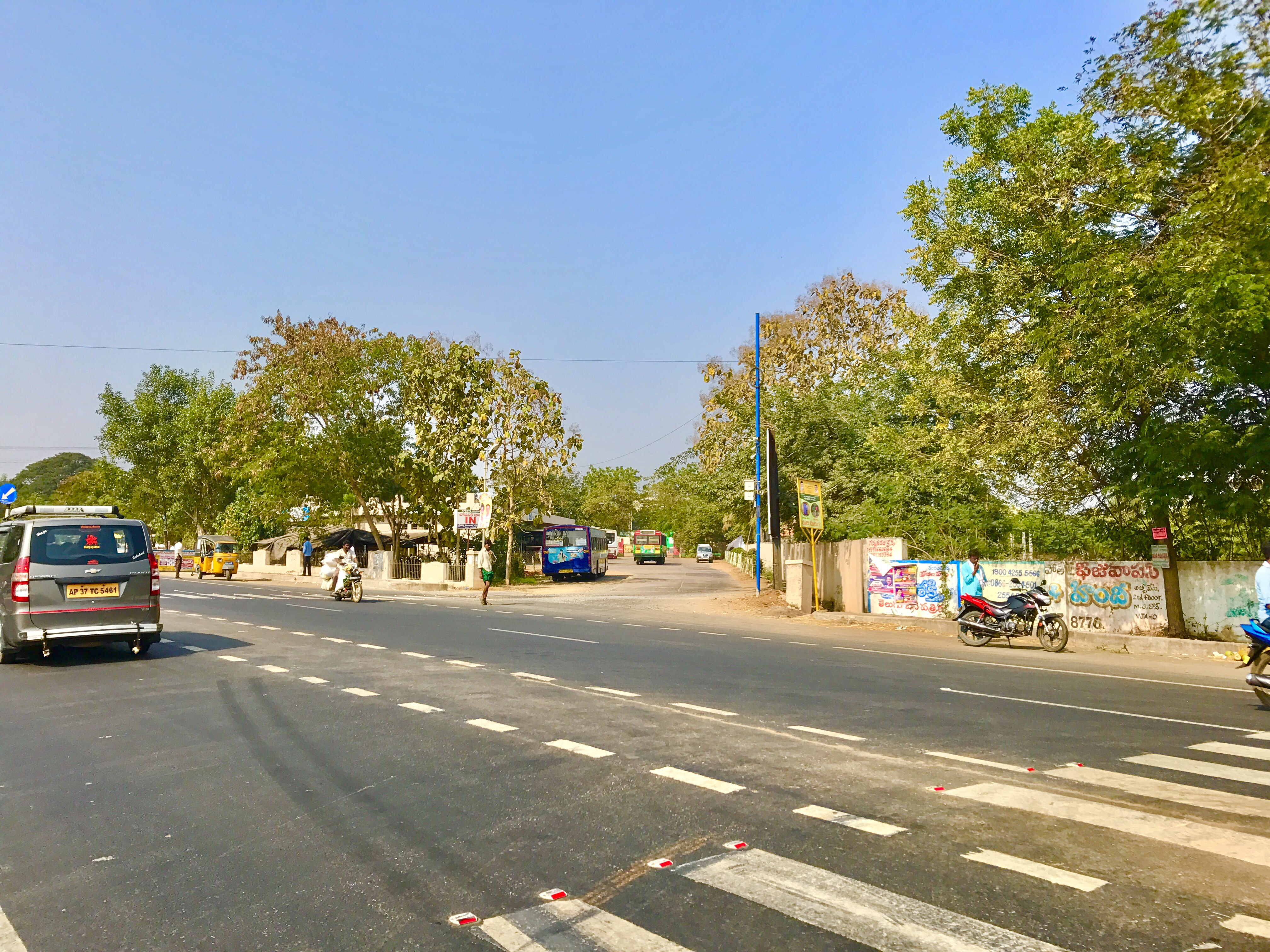 Gannavaram town bus station